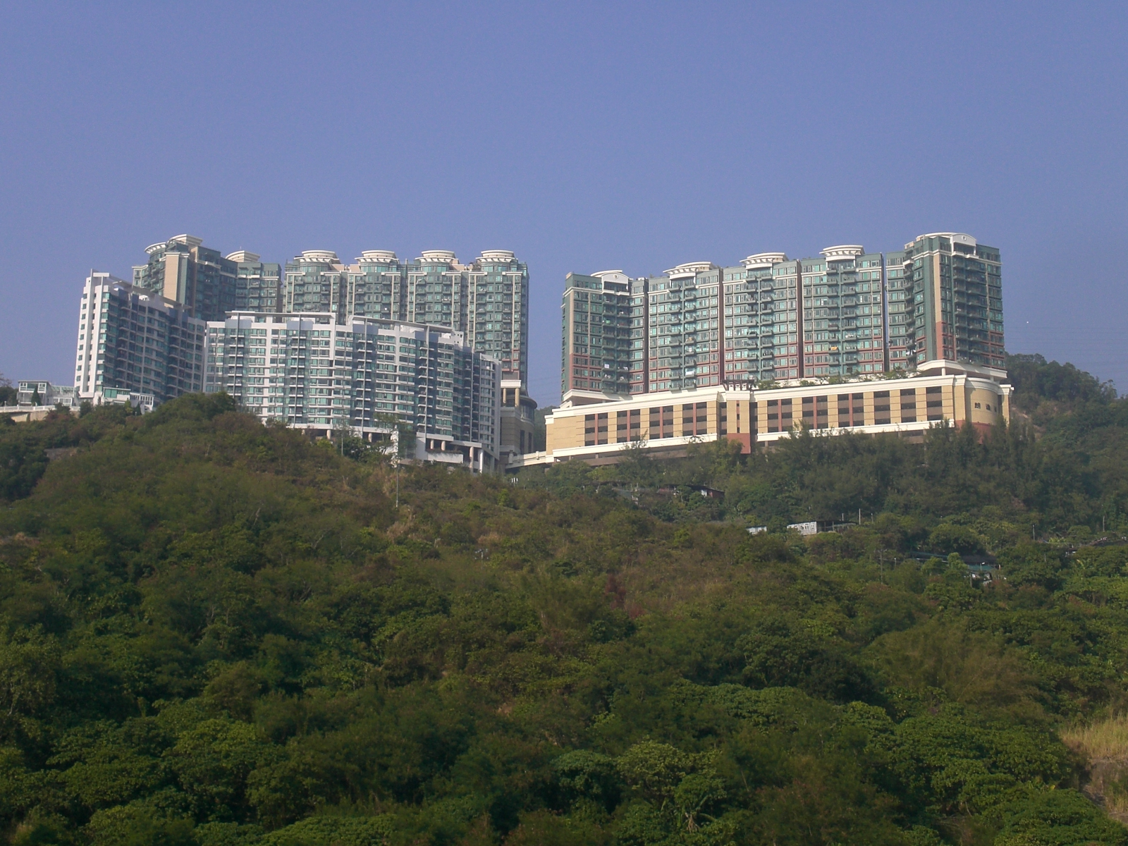 荃灣zh:荃景圍 荃景花園遠眺 朗逸峯